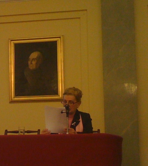 Dr. Mintalova Zubercova at the International culinary heritage conference at the Polish Academy of Sciences in Warsaw.